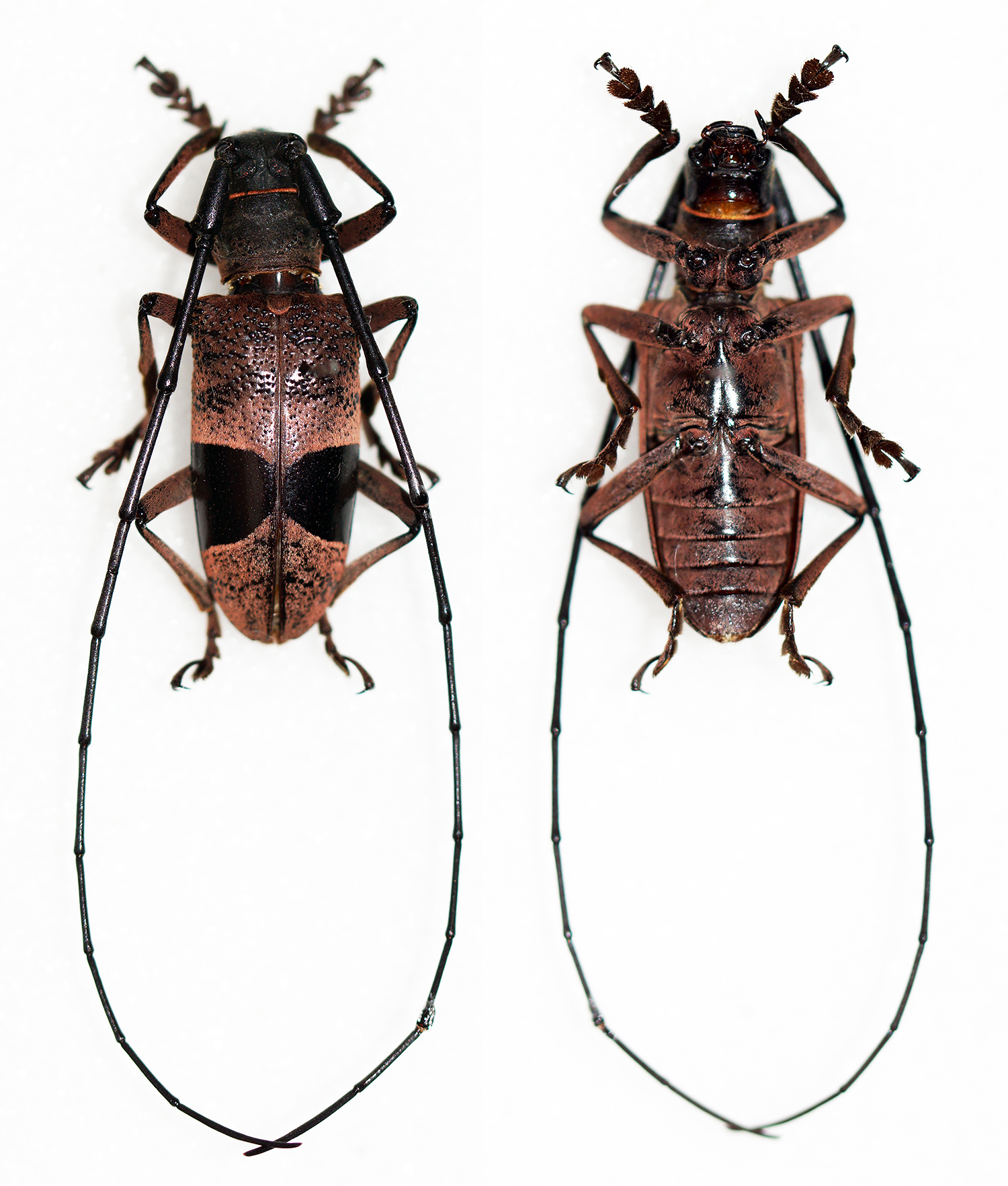 Thomson,1864 Sex: Male Data: 20-07-13 - Crocker Range - Sabah - Malaysia Size: ?